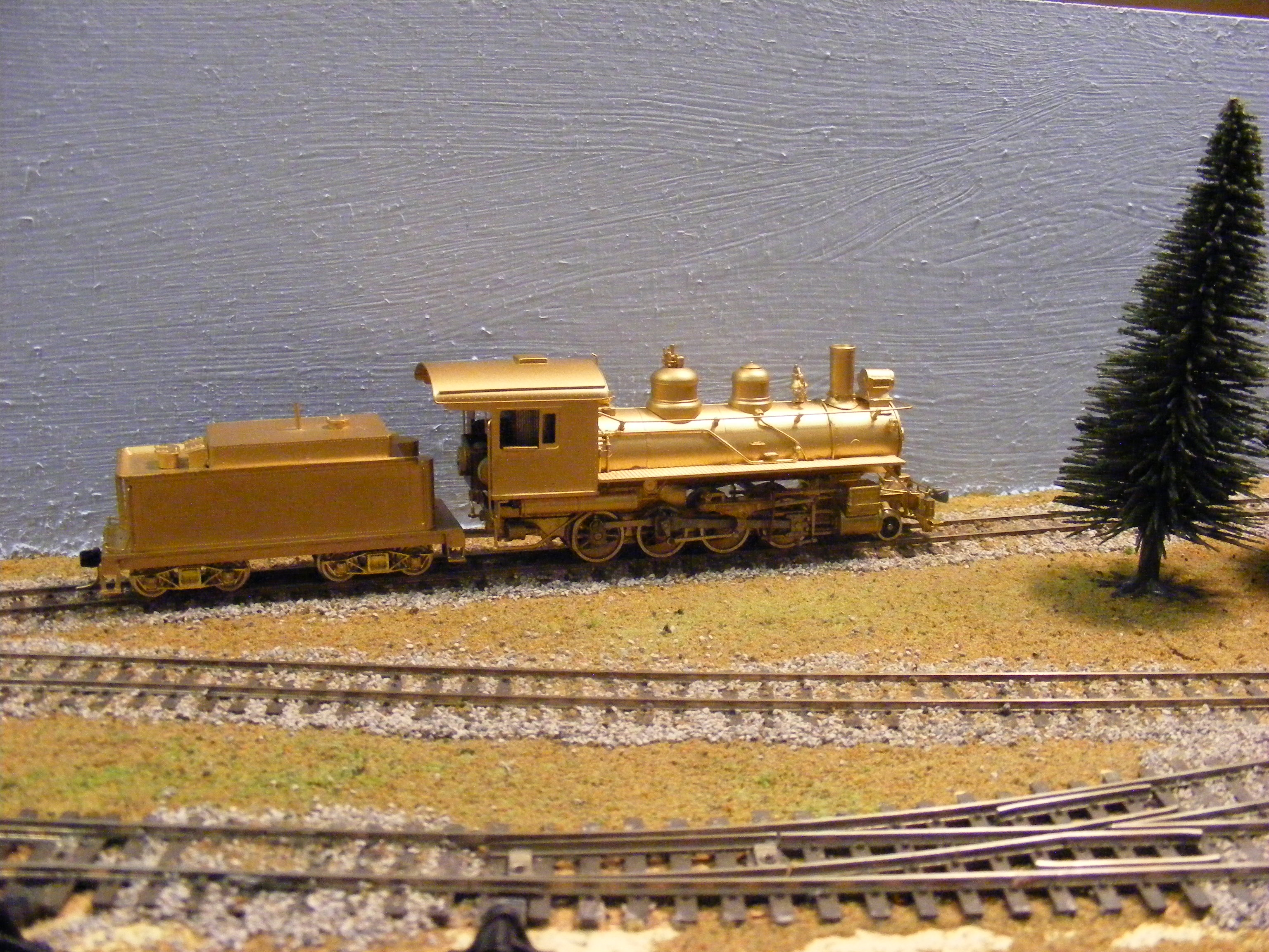 Malpaso County RR by Will Booth - HOn3 is 3.5mm scale on 10.5mm gauge track.